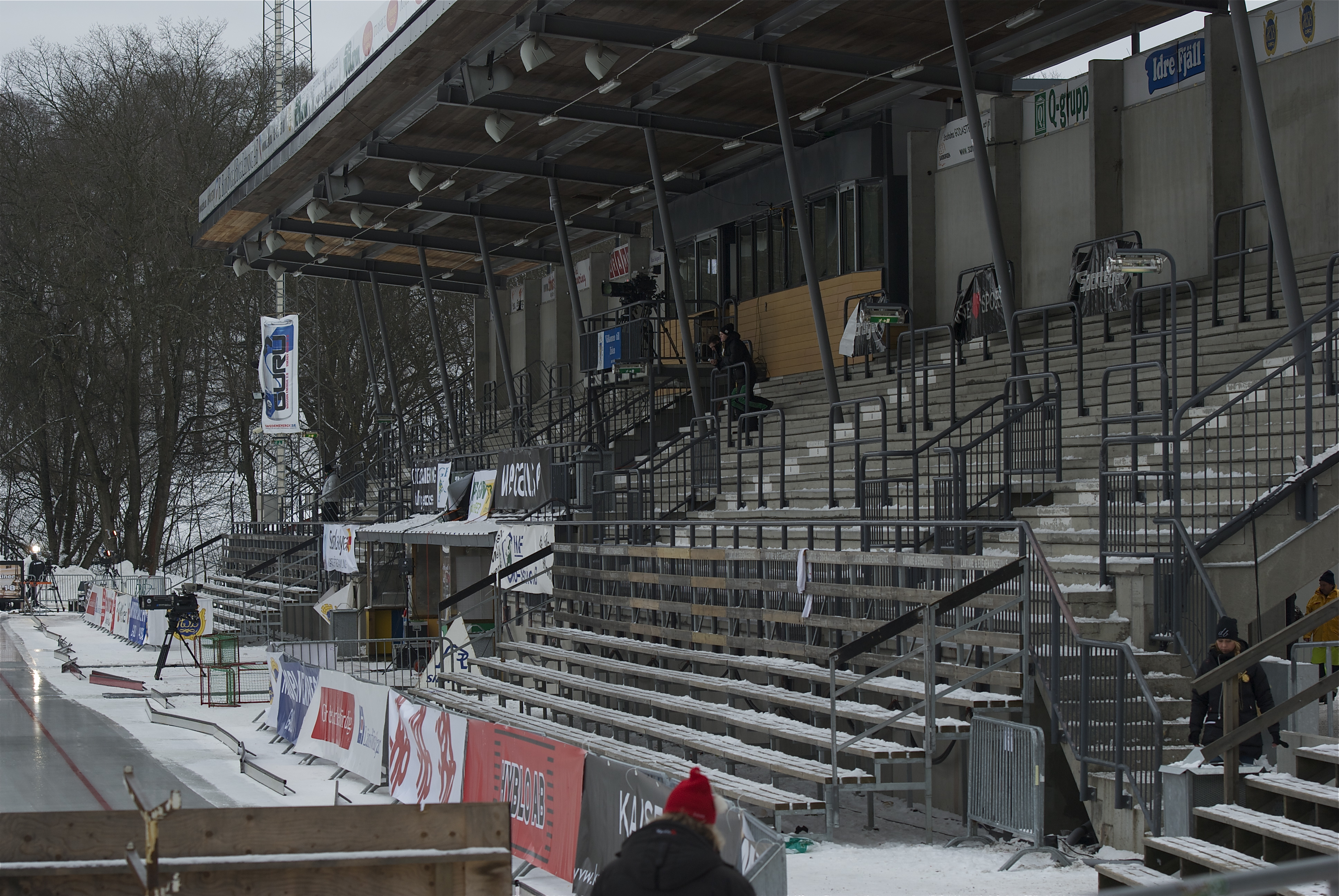 Zinkensdamms IP, main stand.